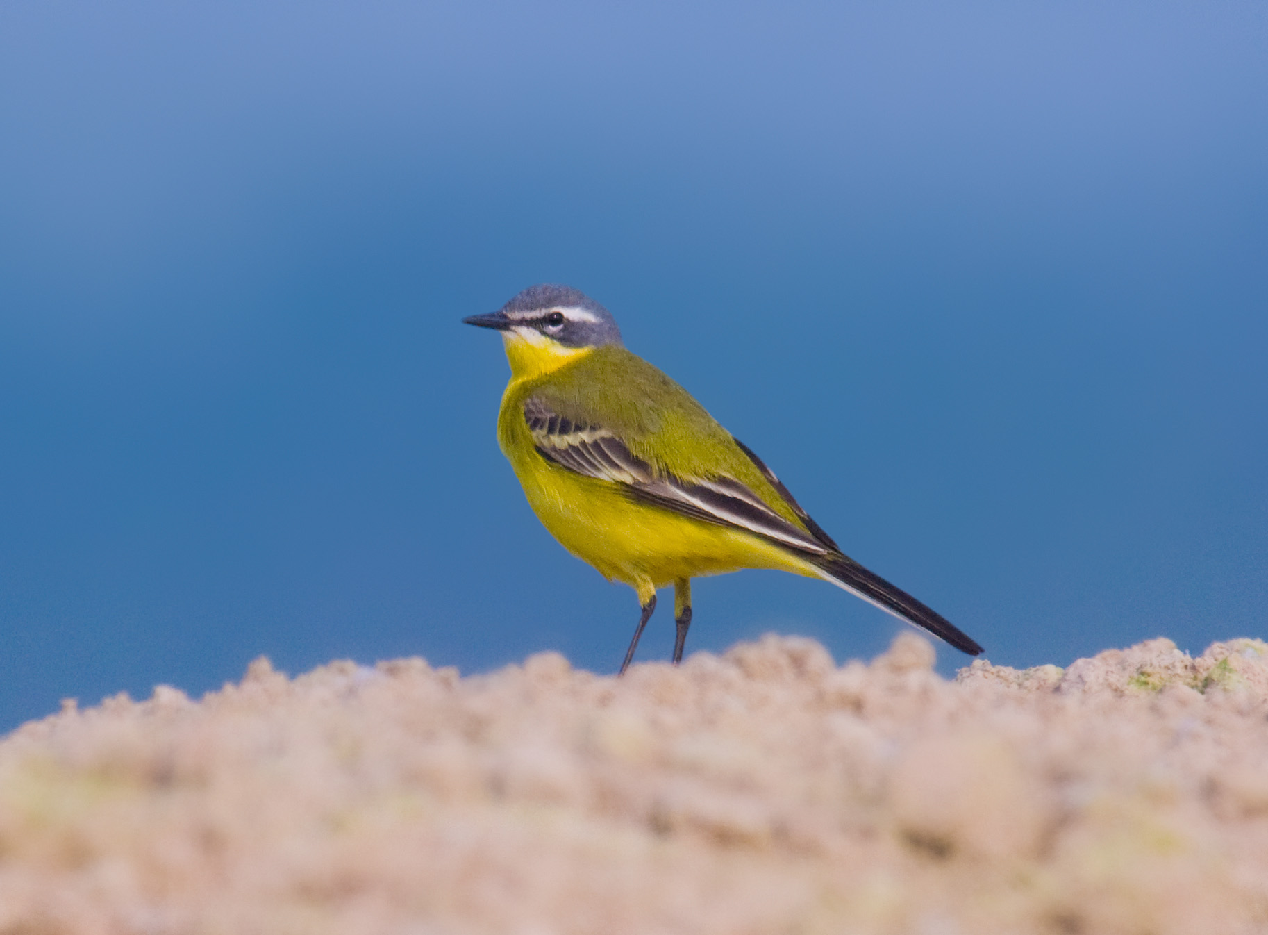 Yellow Wagtail